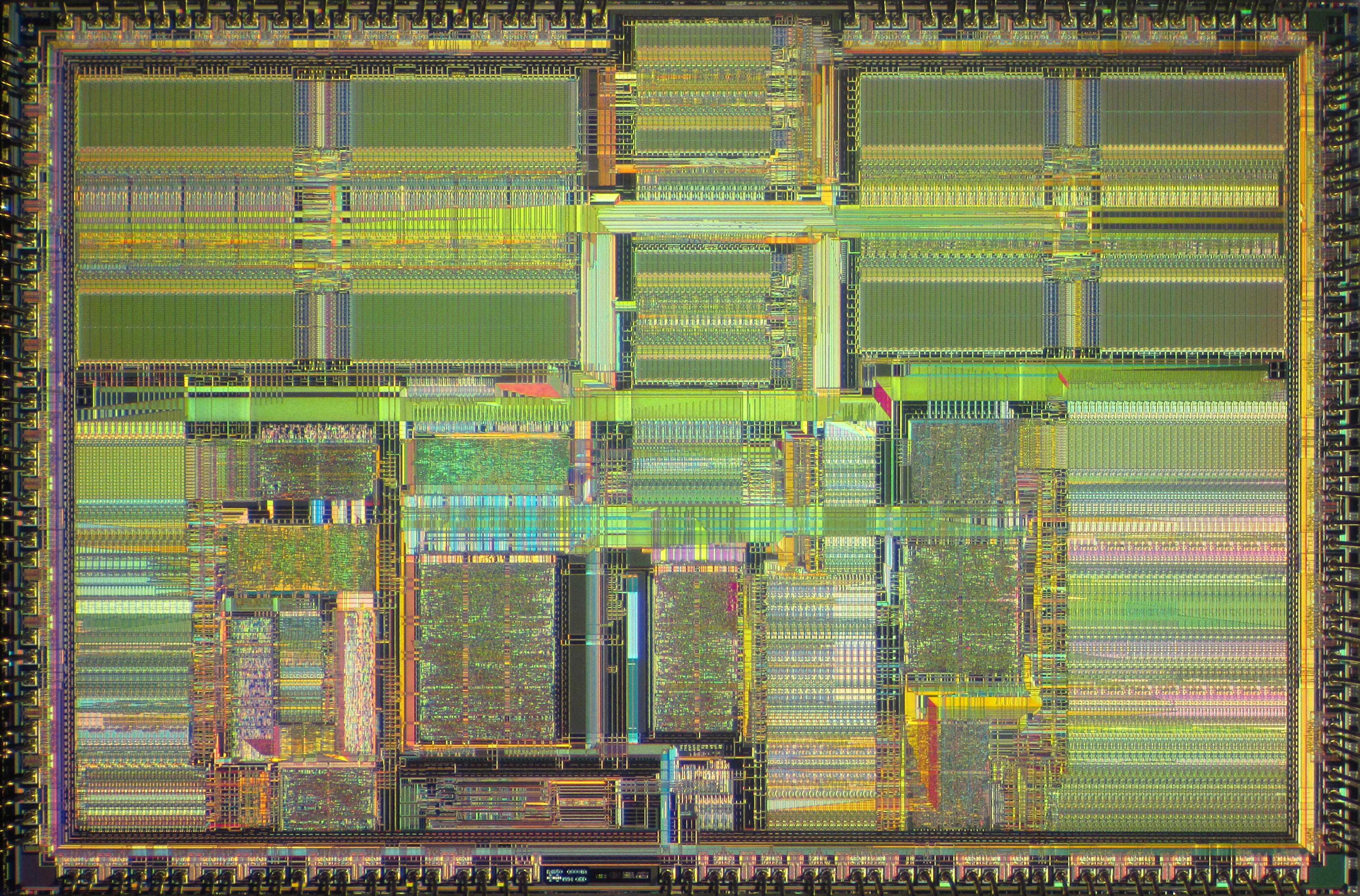 Die shot of IDT R4650 MIPS microprocessor (79R4650-100MS).